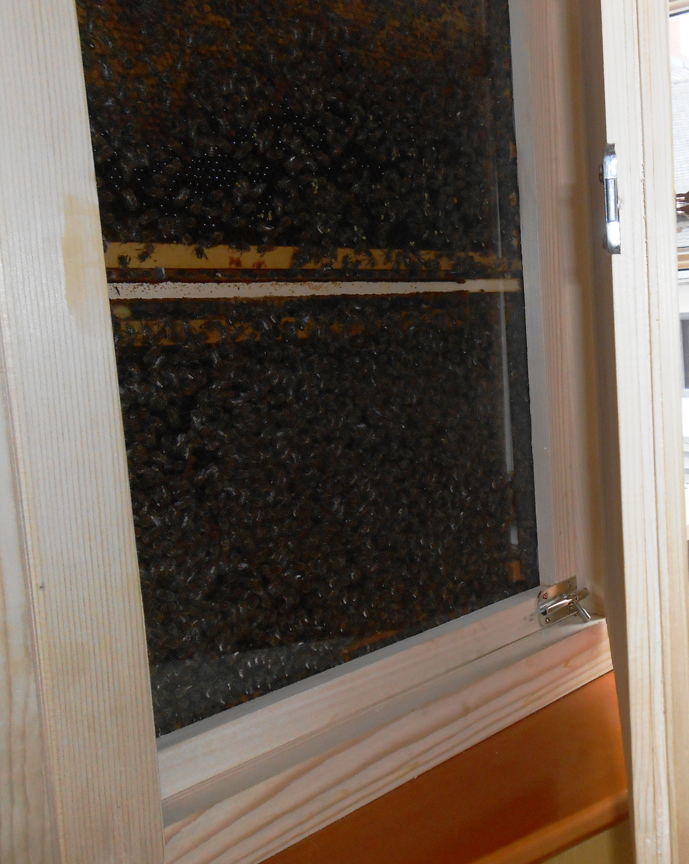 Museum of Beekeeping, bees, Radovljica, Slovenia 04